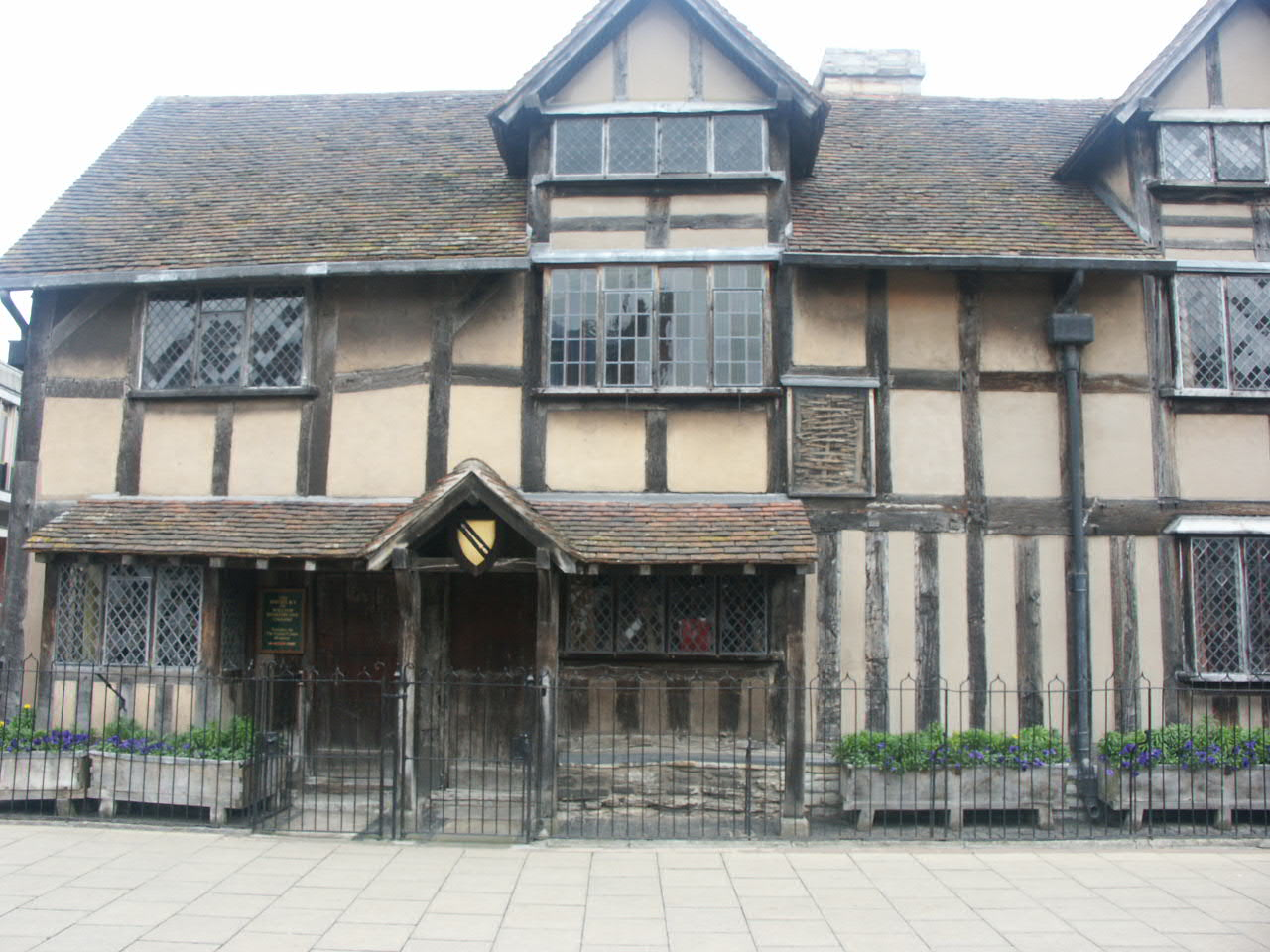 House where Shakespeare was born. Taken in Stratford-upon-Avon, Warwickshire, England.